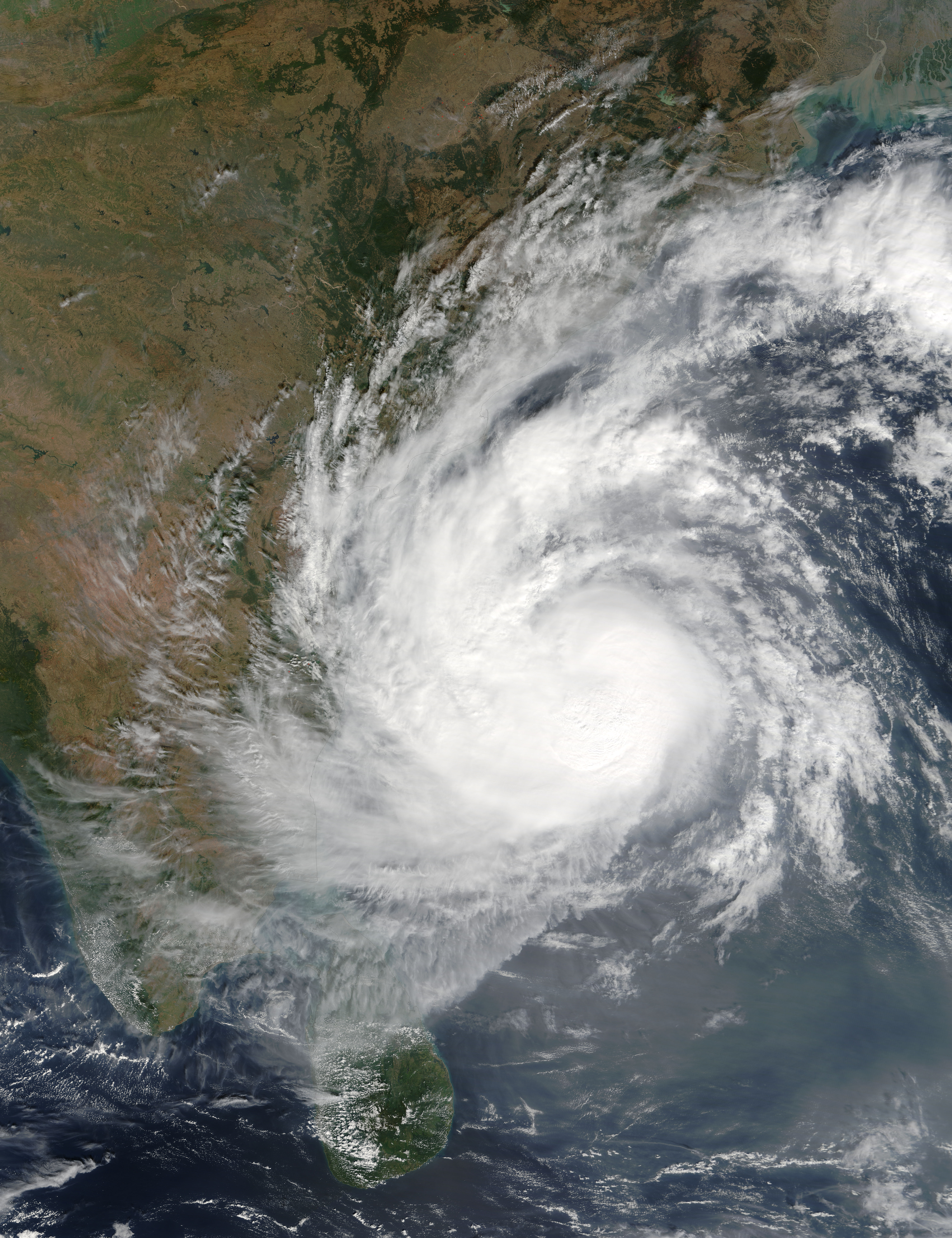 Tropical Cyclone Vardah (05B) approaching India